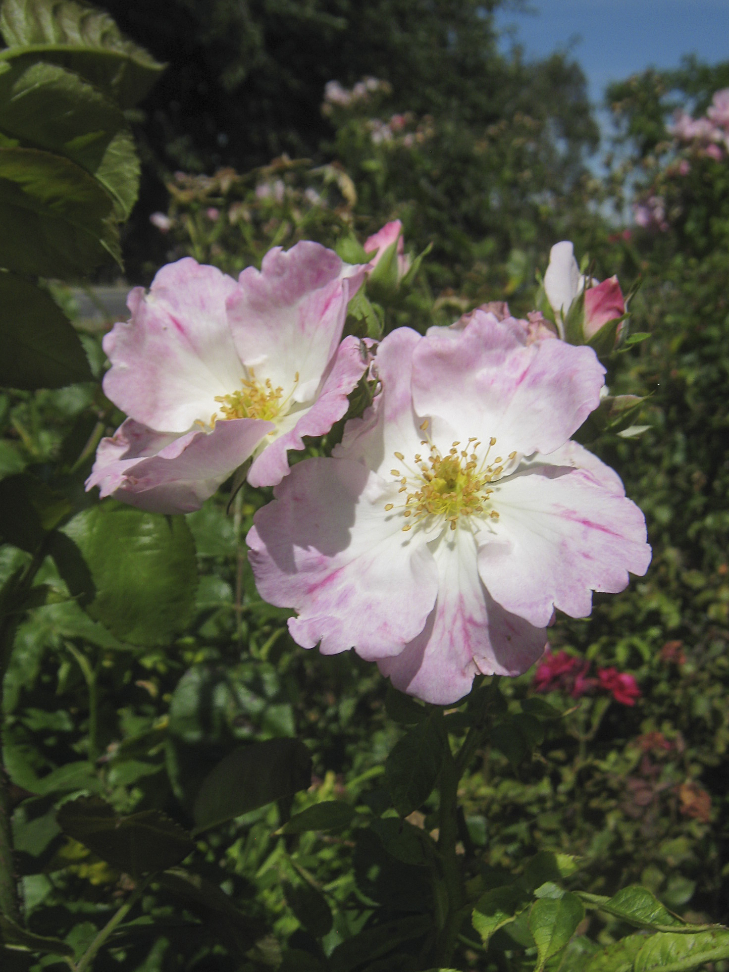 Rose 'Ringlet', climber by Alister Clark 1922; Photographed in the Alister Clark Memorial Rose Garden, Bulla, Victoria